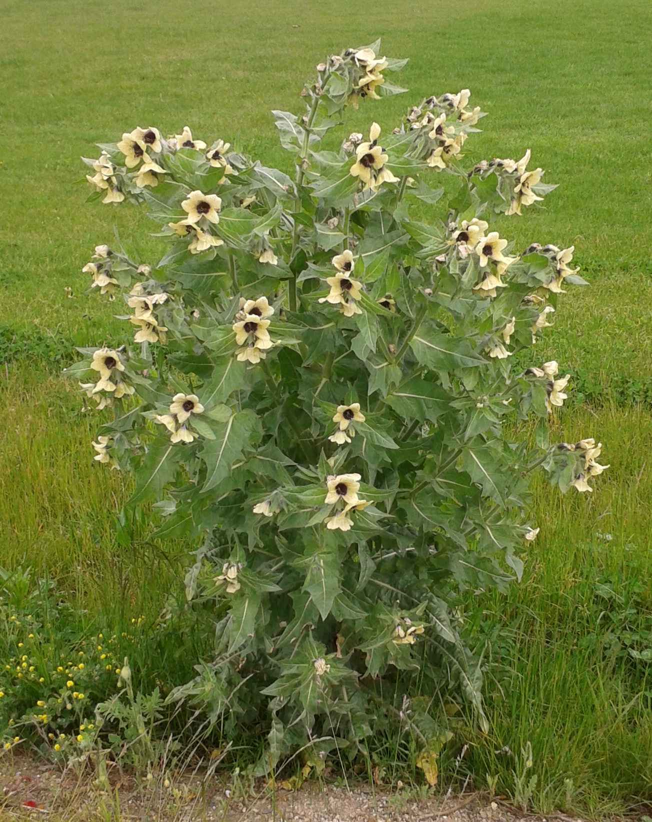 Large flowering Henbane (Hyoscyamus niger) on the edge of Circus Field, Blackheath, SE London